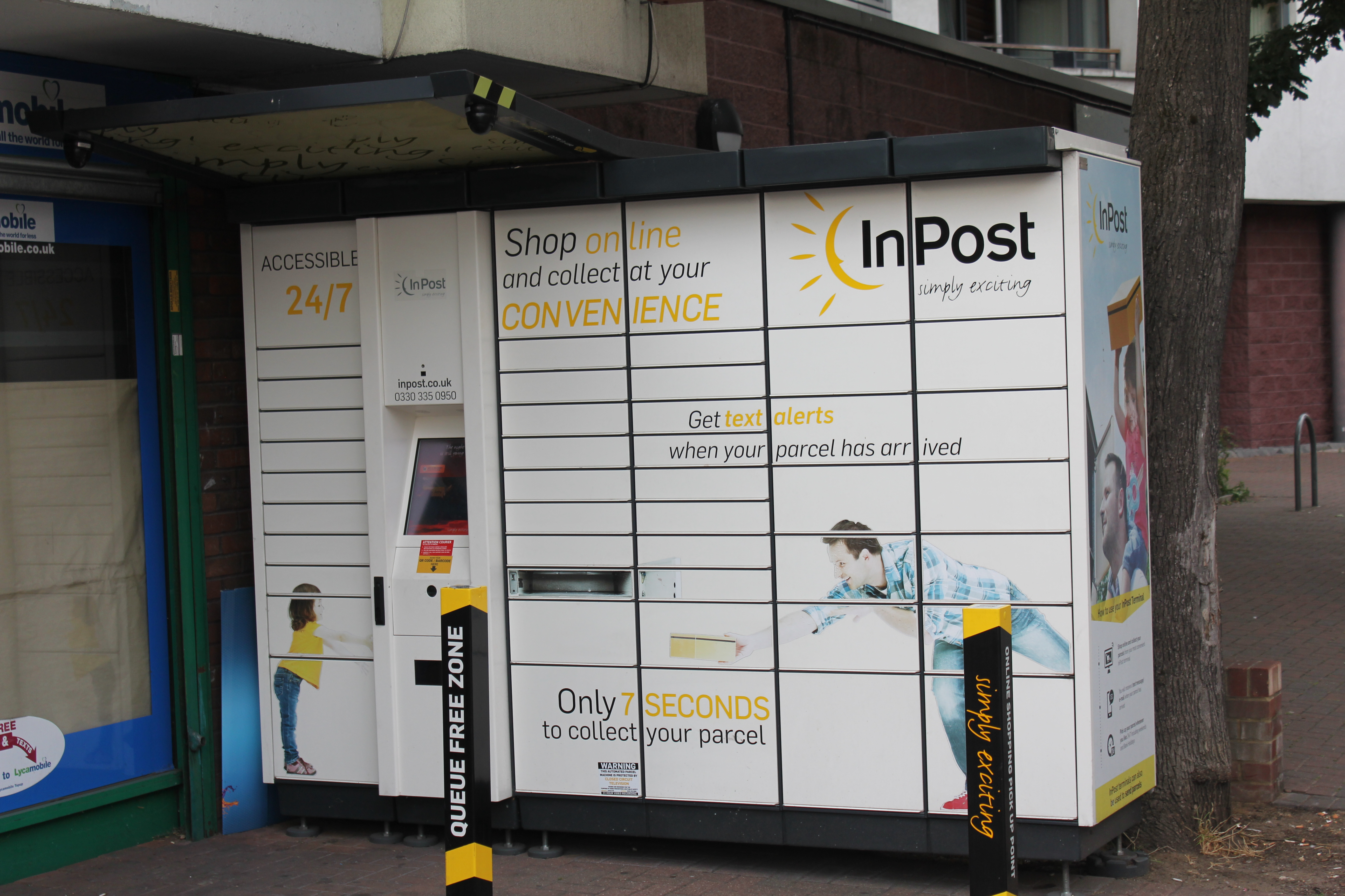 Parcel machine of the InPost Company in London (July 2015)